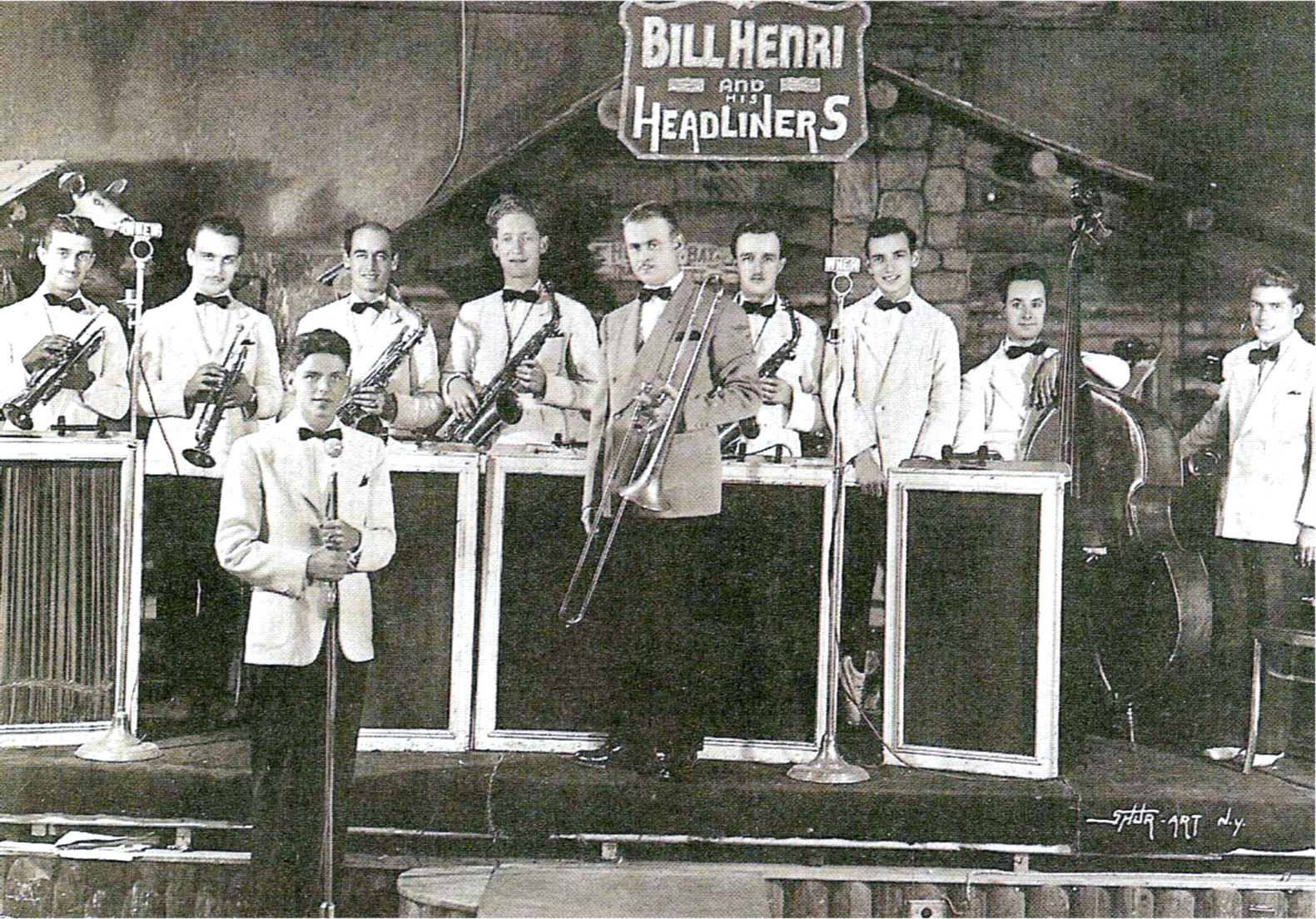 Photo of Frank Sinatra at the Rustic Cabin in 1938 performing with Bill Henri’s band. Sinatra worked for the restaurant as an “emcee”, so he sang with whatever band was playing an engagement at the Rustic Cabin in Englewood Cliffs, New Jersey at the time.